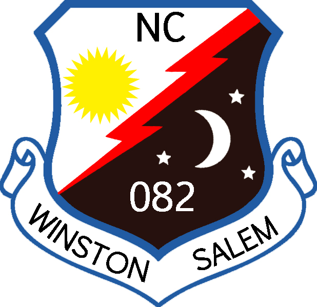 NC-082 Squadron seal/patch